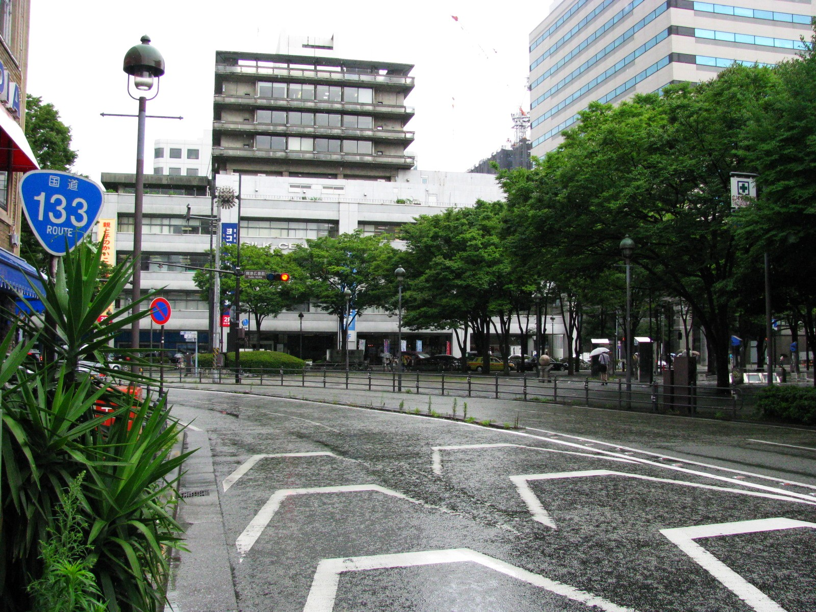 The Japan National Route 133. This place is Nihon-Ōdōri in naka, Yokohama, Kanagawa, Japan.